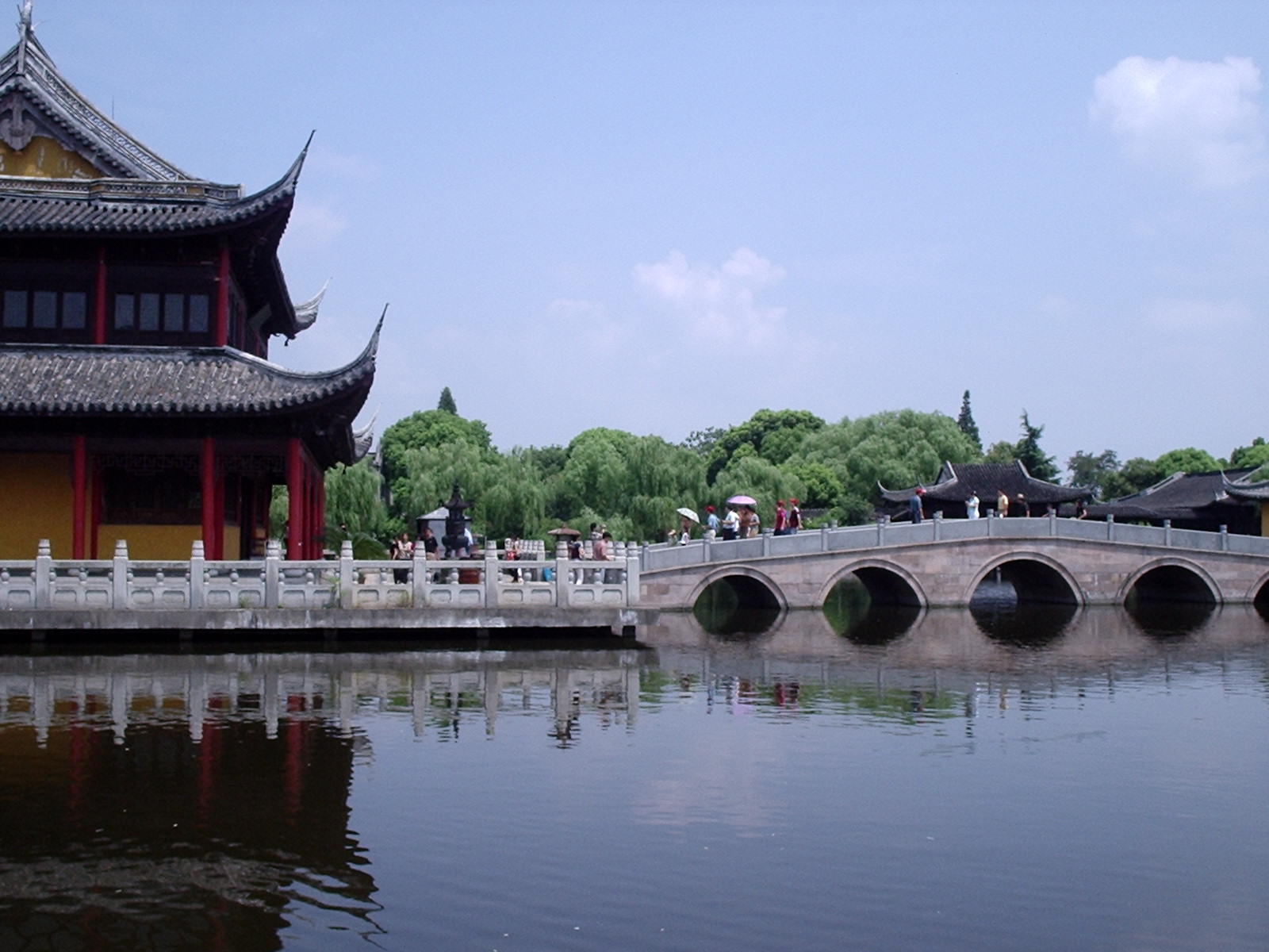 Tourists cross a bridge in Chengxu temple, Zhou Zhuang, China.